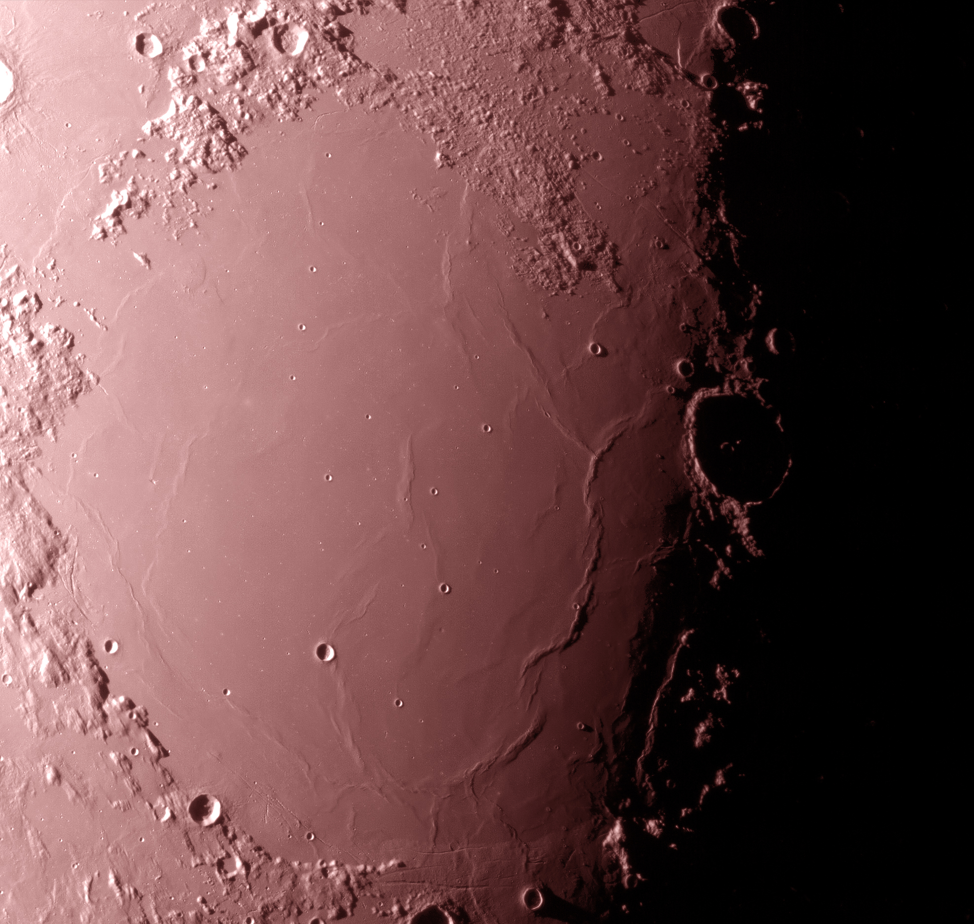 Sea of Serenity, on the Moon. Infrared image in L band centred on 3.75 micrometres. Taken with the SIRCA camera by M. Gålfalk, G. Olofsson, and H.-G. Florén. Nordic Optical Telescope, Stockholm Observatory. More images can be found here.